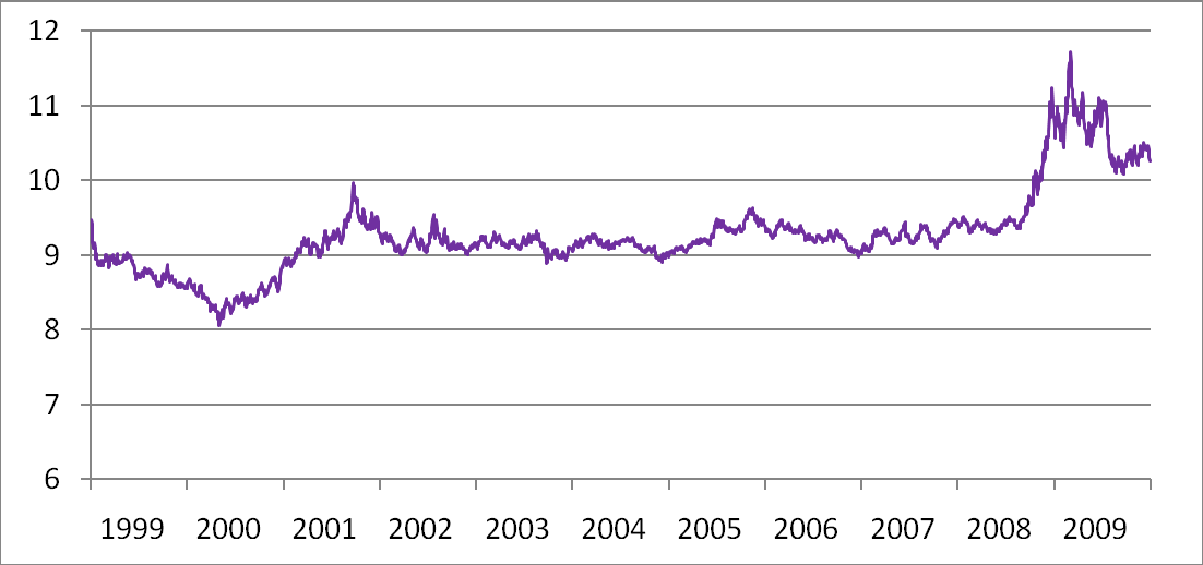 Exchange rate SEK against EUR. .